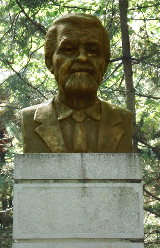 Statue – Zsolt Jószay: Konrad Lorenz. Wildlife park, Miskolc, Hungary